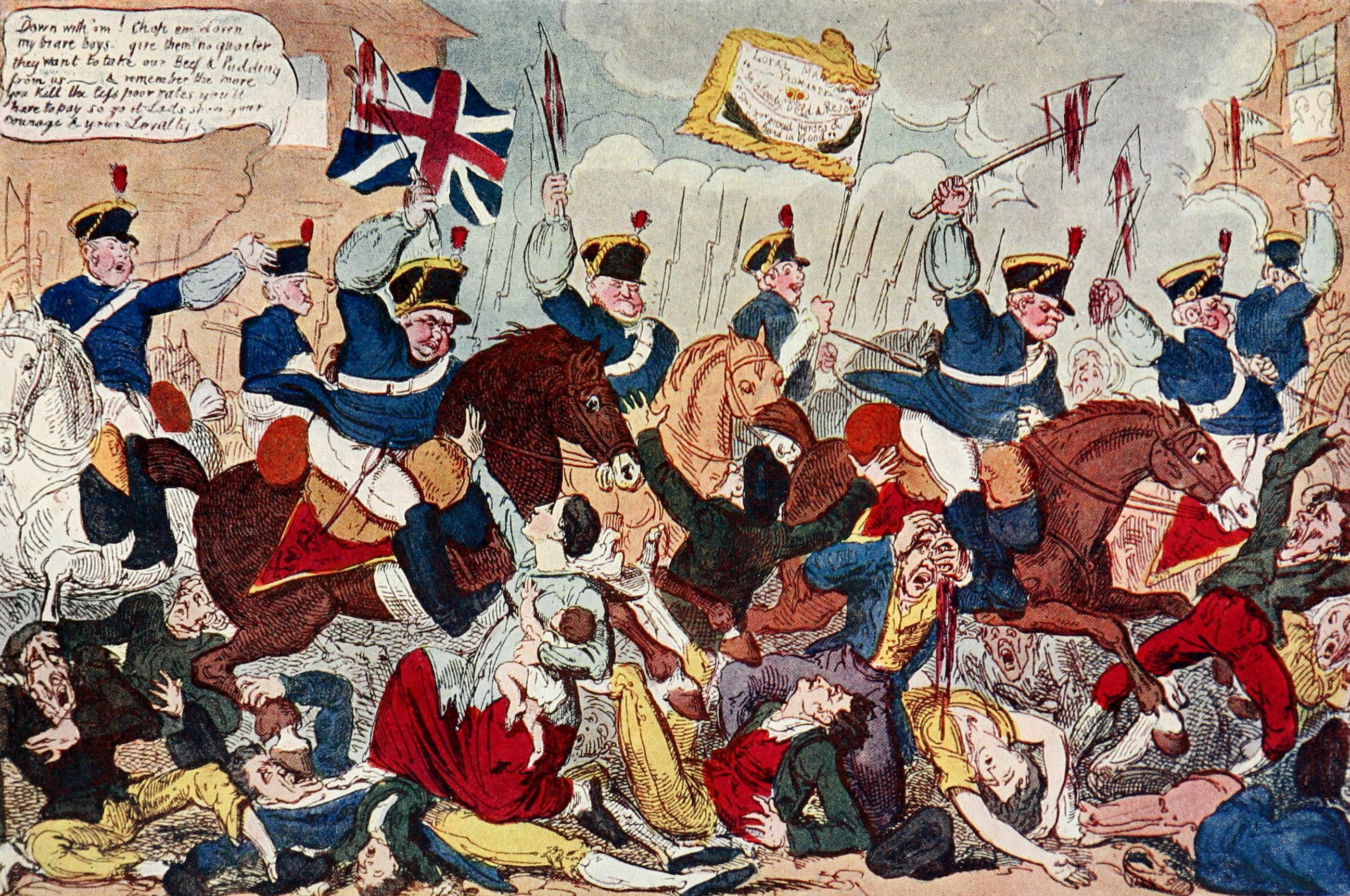 "representing the charge of the Manchester Yeomanry on the unarmed populace in St. Peter's Fields, Manchester. The yeomanry are depicted as butchers armed with axes reeking with the blood of the victims."— Traill, Henry Duff (ed.), in: [1]